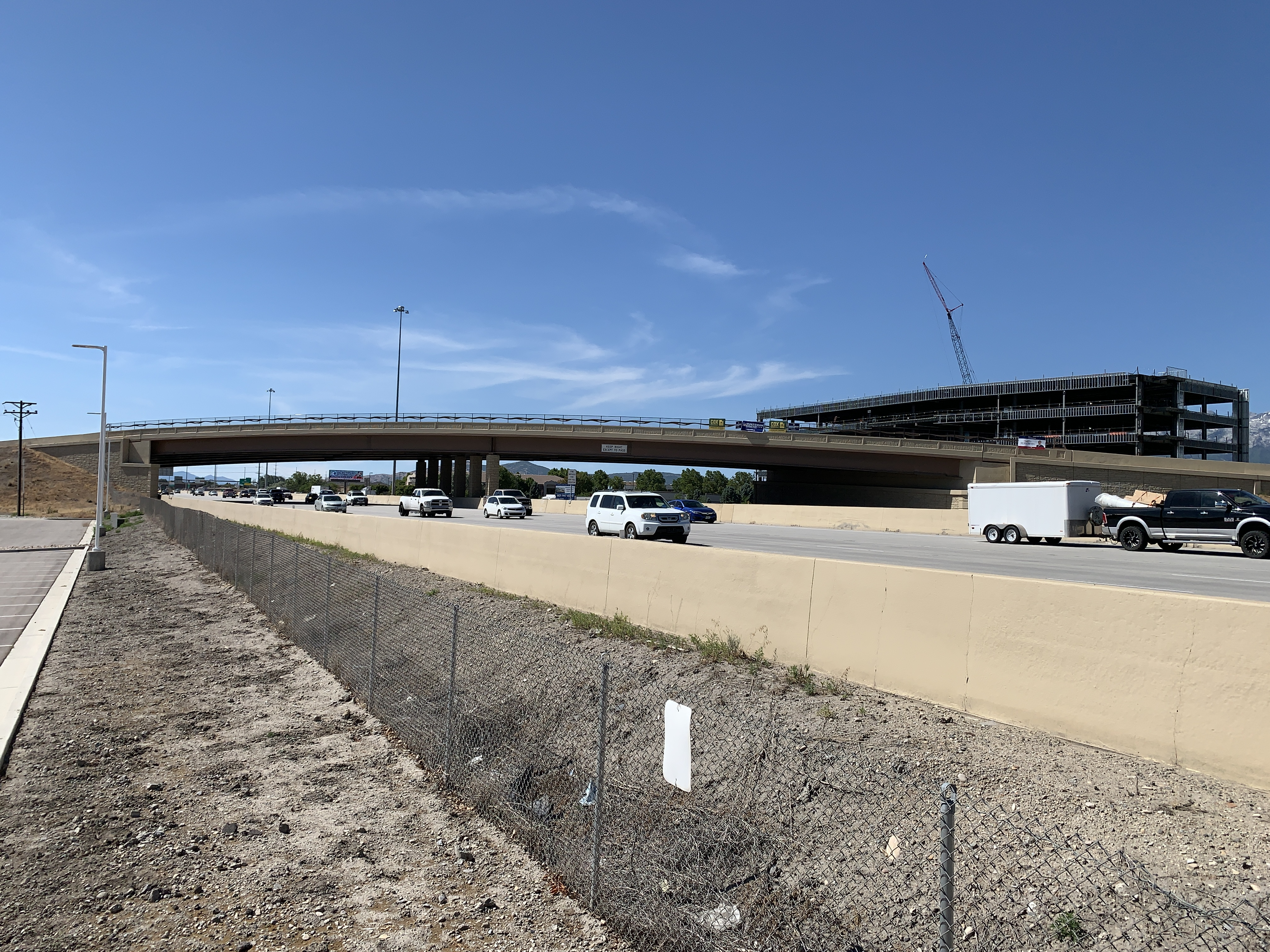 The Sam White Bridge in American Fork, Utah. The view is looking north toward the bridge from the south side of I-15.